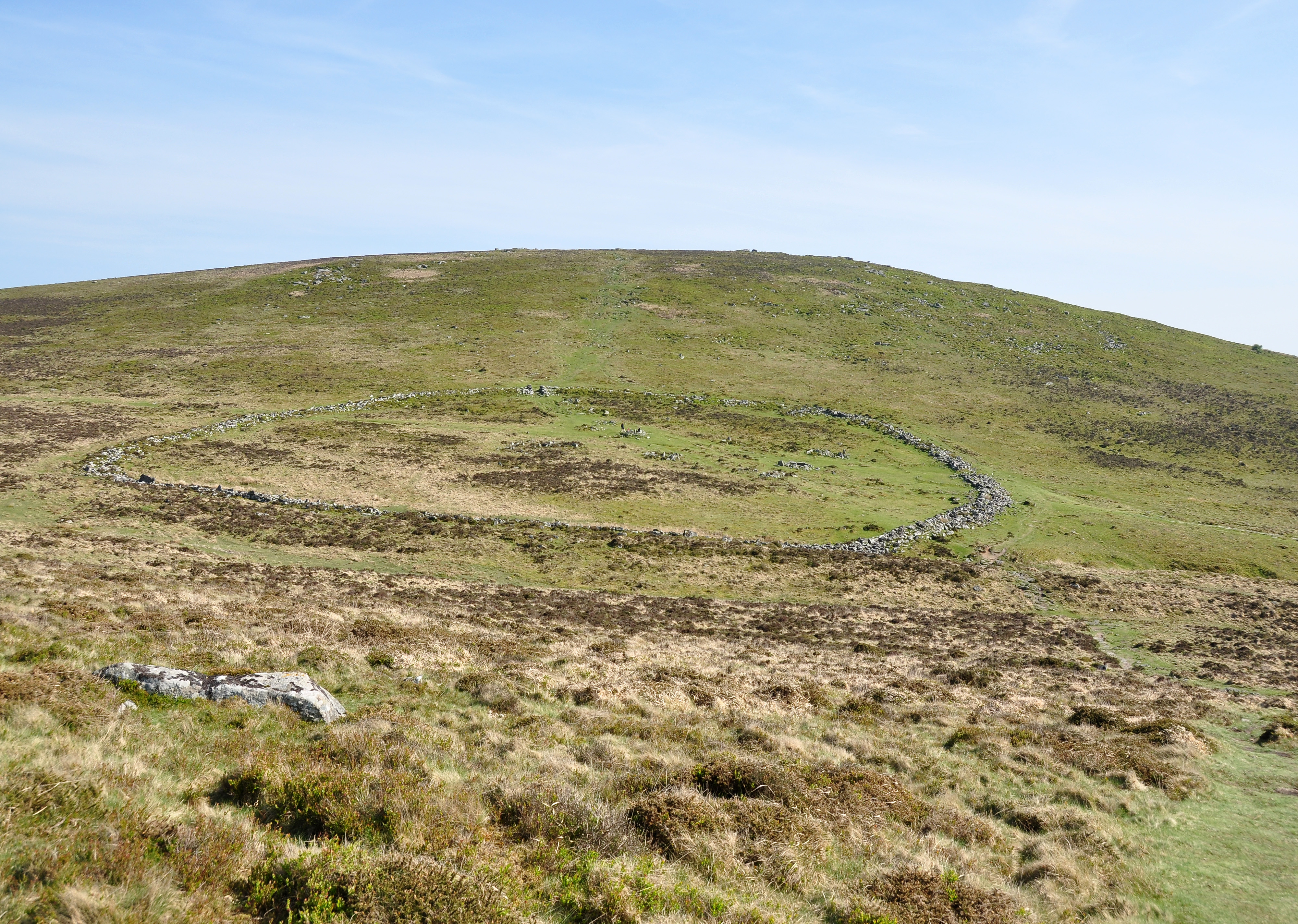 Grimspound on Dartmoor, with Hameldown Tor behind it.